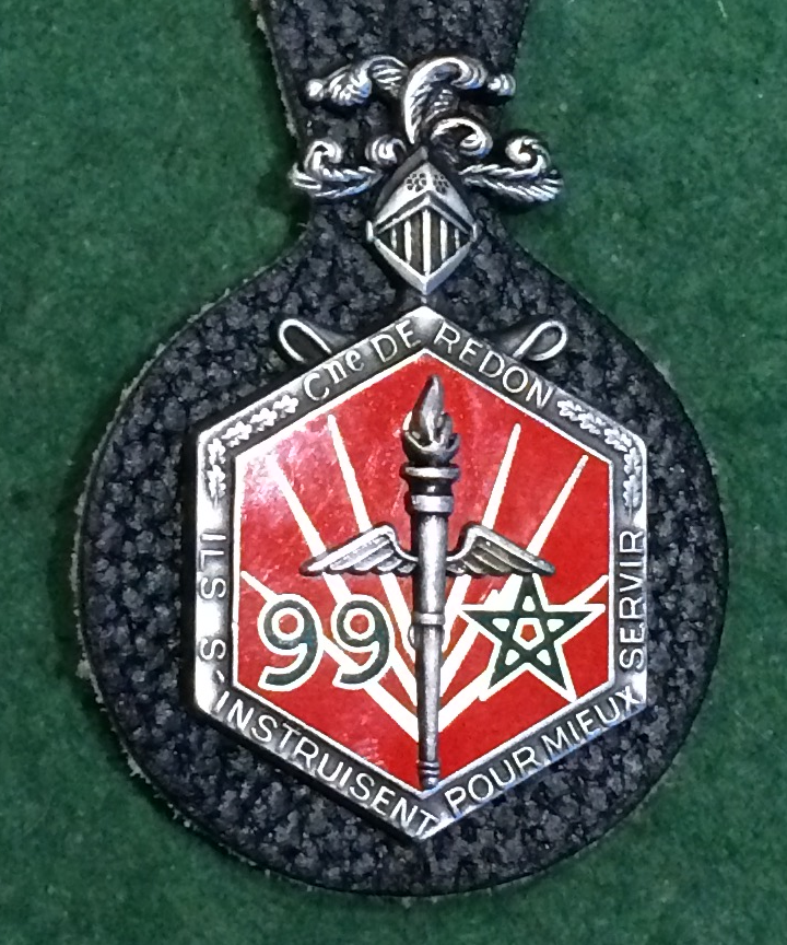 Insigne de la promotion ORSEM 1986 «capitaine de Redon» (Fraisse Paris), pour laquelle j'étais ORSEM professeur adjoint. L'insigne porte le logo et la devise des ORSEM «ils s'instruisent pour mieux servir». Le casque caractérise l'arme blindée de la Cavalerie (abc) ; l'étoile, l'Afrique.